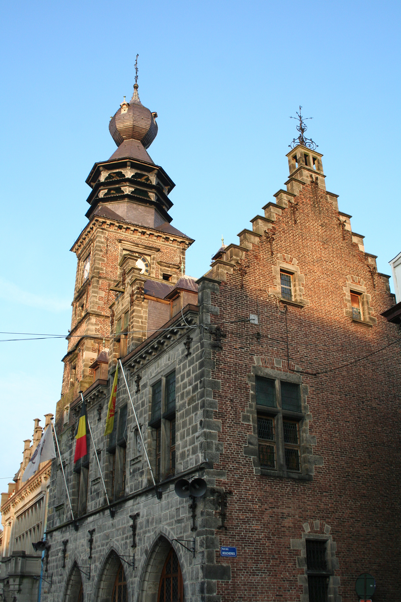 Binche (Belgium), the town hall and his belfry (XVIth century).